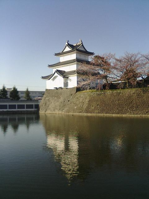 the Three-storied tower(rebuilt)